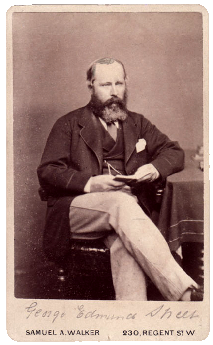 Carte-de-visite portrait of the British architect George Edmund Street (1824-1881. It must date from 1878 (when Walker took up residence at 230 Regent St) and 1881 (when Street died).